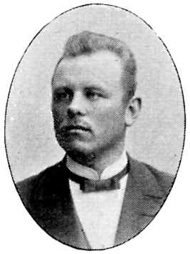 Image scanned from the book "Svenskt Porträttgalleri XX - Arkitekter, Bildhuggare, Målare m.fl. " ("Swedish Portrait Gallery XX - Architects, Sculptors, Painters, ") published 1901